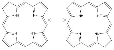 Resonance chemical structures of Porphin